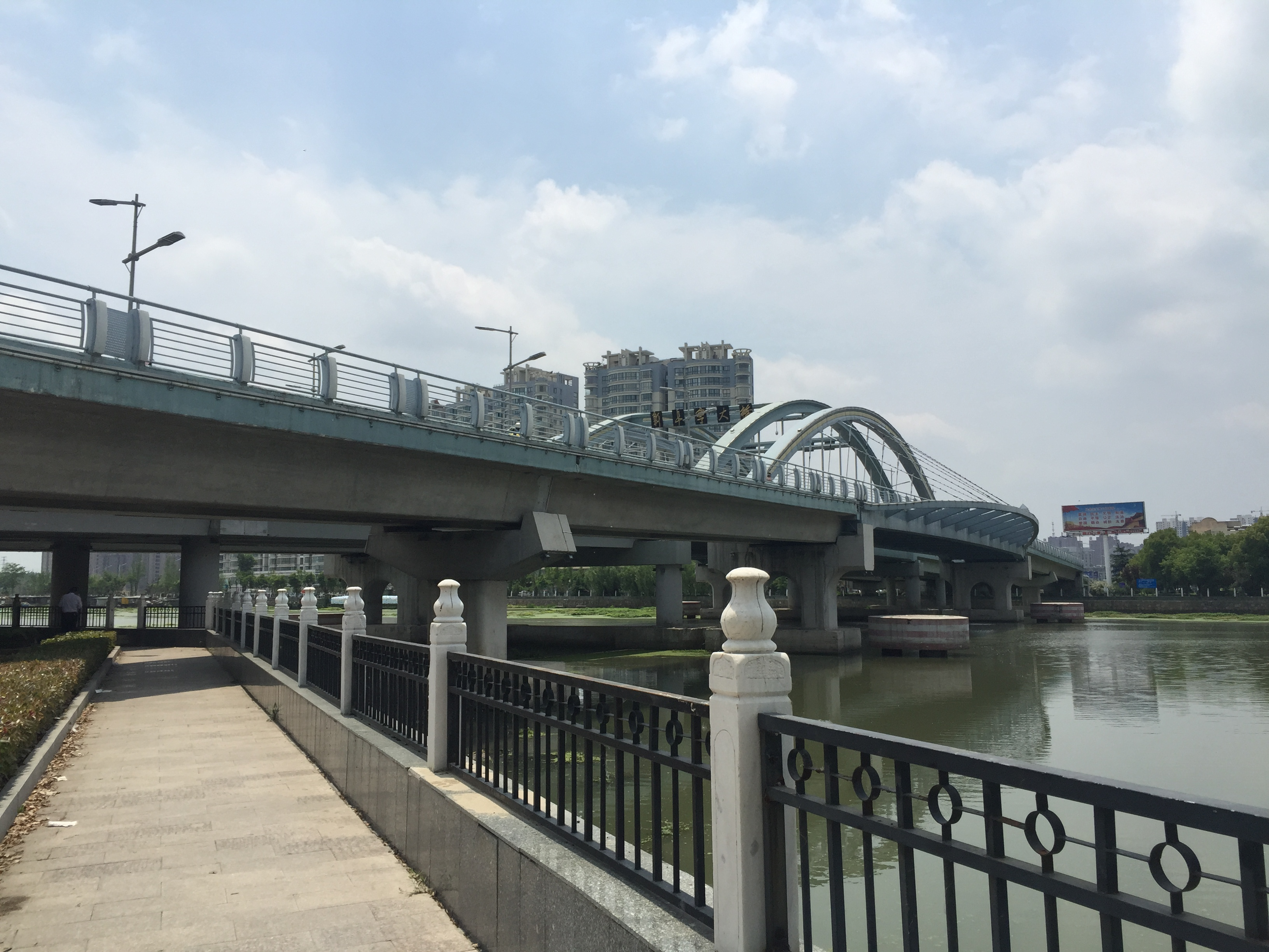 Funing New Bridge jiangsu